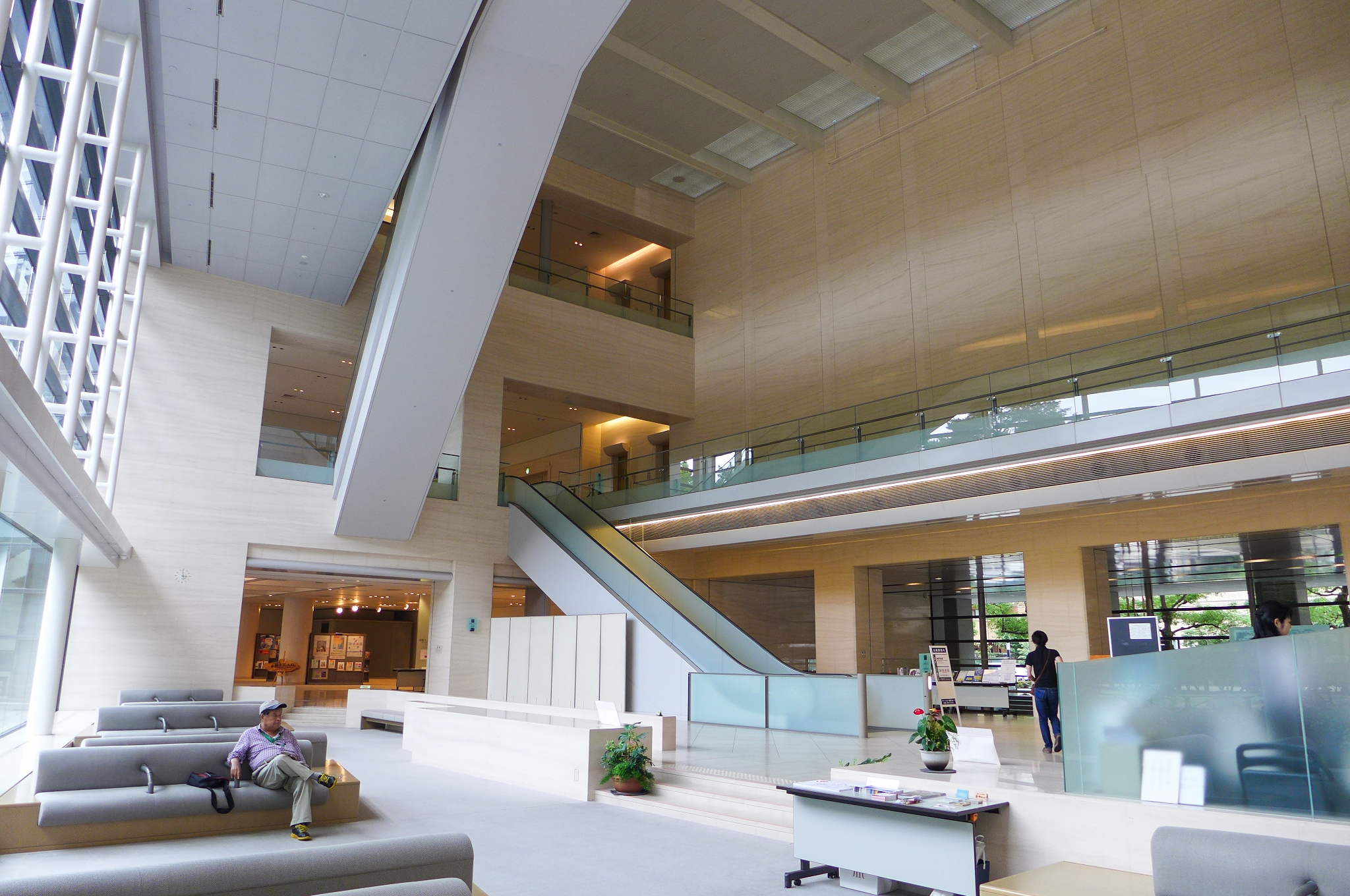 Hiroshima Prefectural Art Museum Void